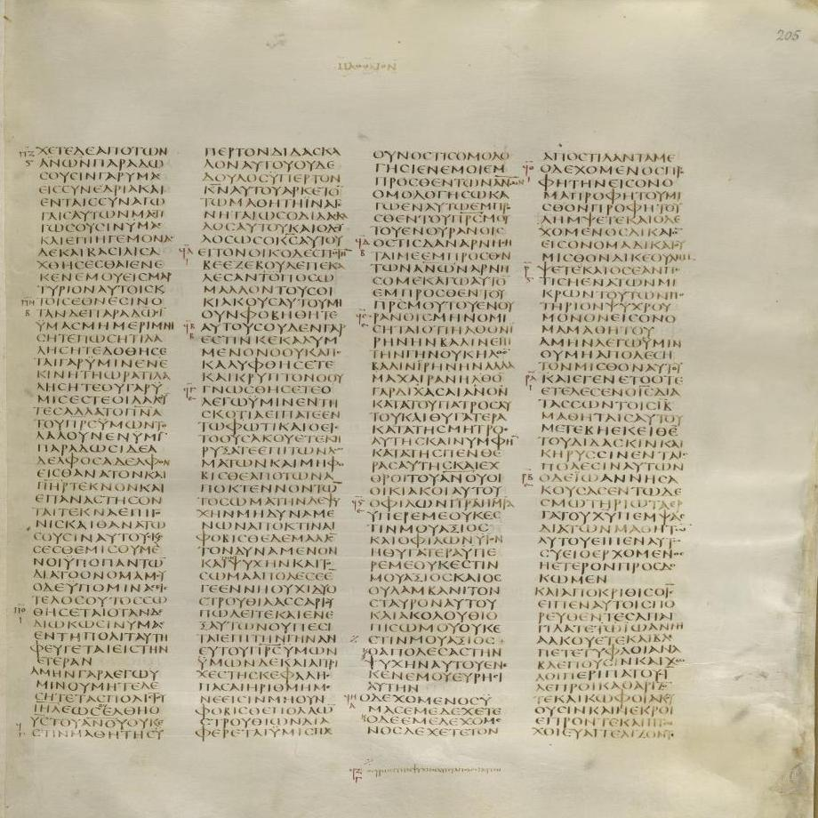 page of the codex with text of Matthew 10:17-11:5